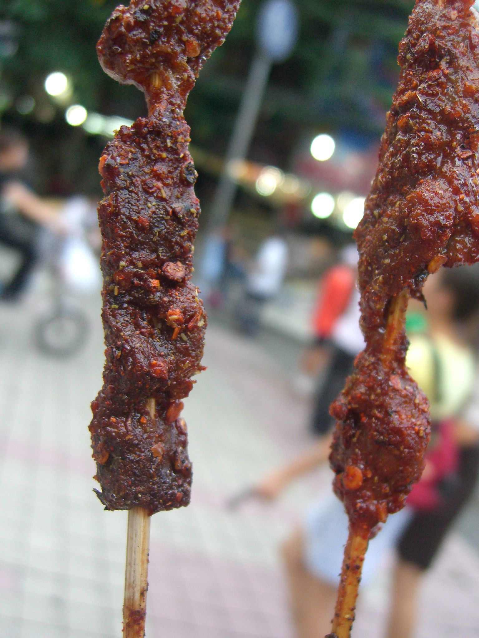 "新疆羊肉串 Uyghur Lamb Skewers - Chengdu" by avlxyz is licensed under CC BY-SA 2.0